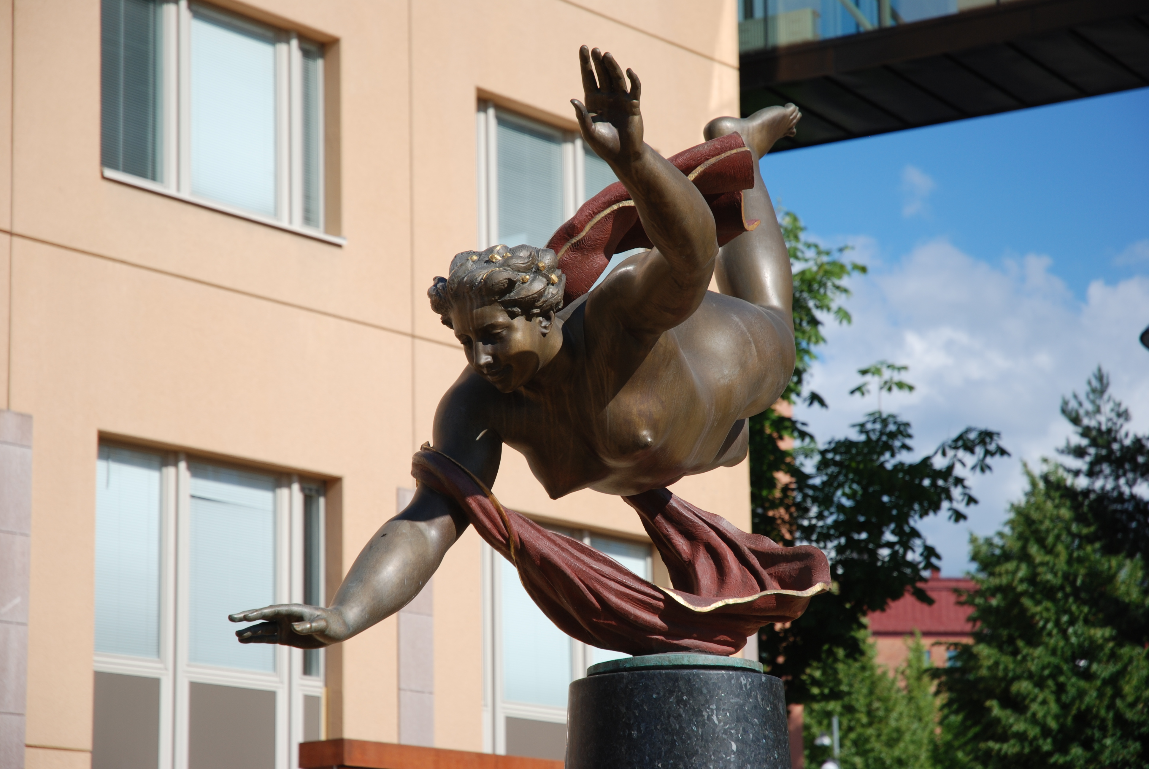 Peter Linde´s Ängel över Nacka sten, bronze, 1995, Nacka Strand, Nacka, Sweden